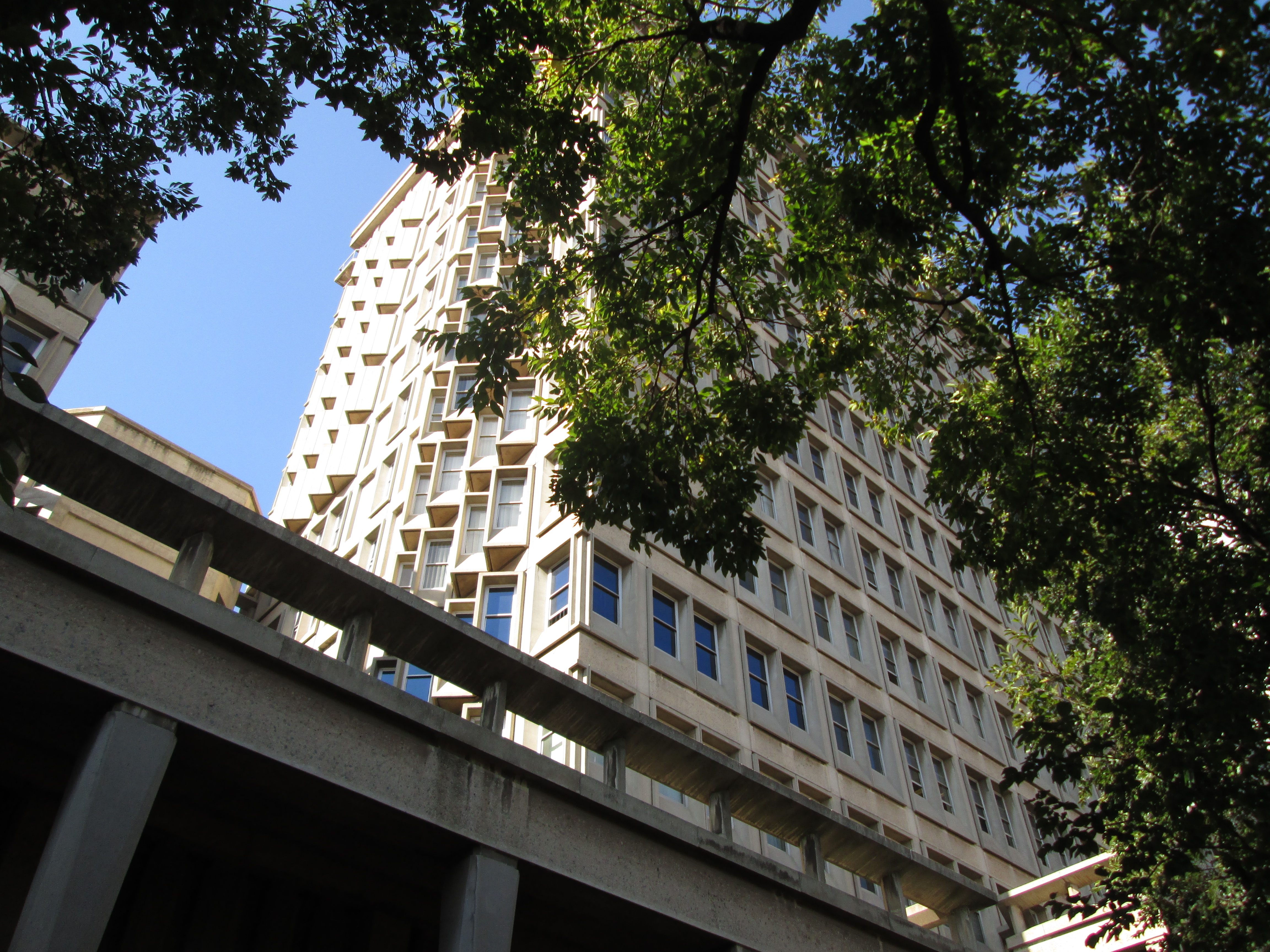 Senate House, on the east campus of the University of the Witwatersrand, Johannesburg as viewed from Jorissen Street.